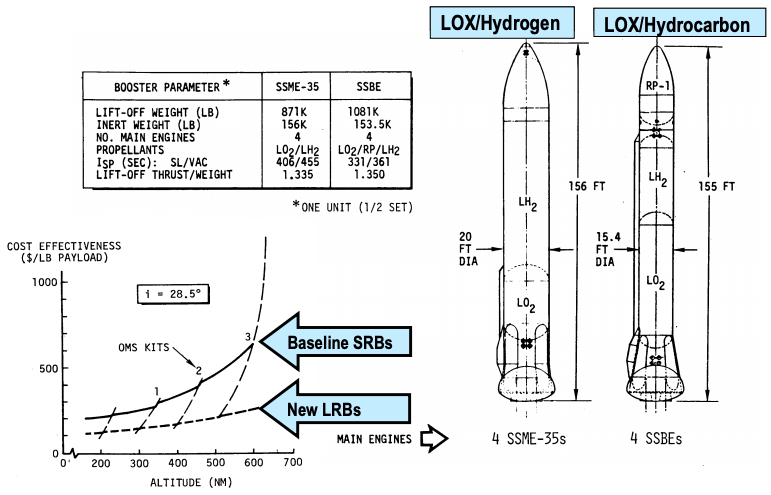 Liquid Boosters Have The Capability To Significantly Reduce Operational Costs